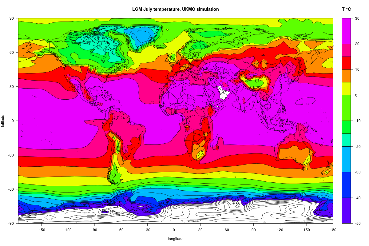 July temperature at Last glacial maximyum, july, according of UKMO paleoclimate simulation.